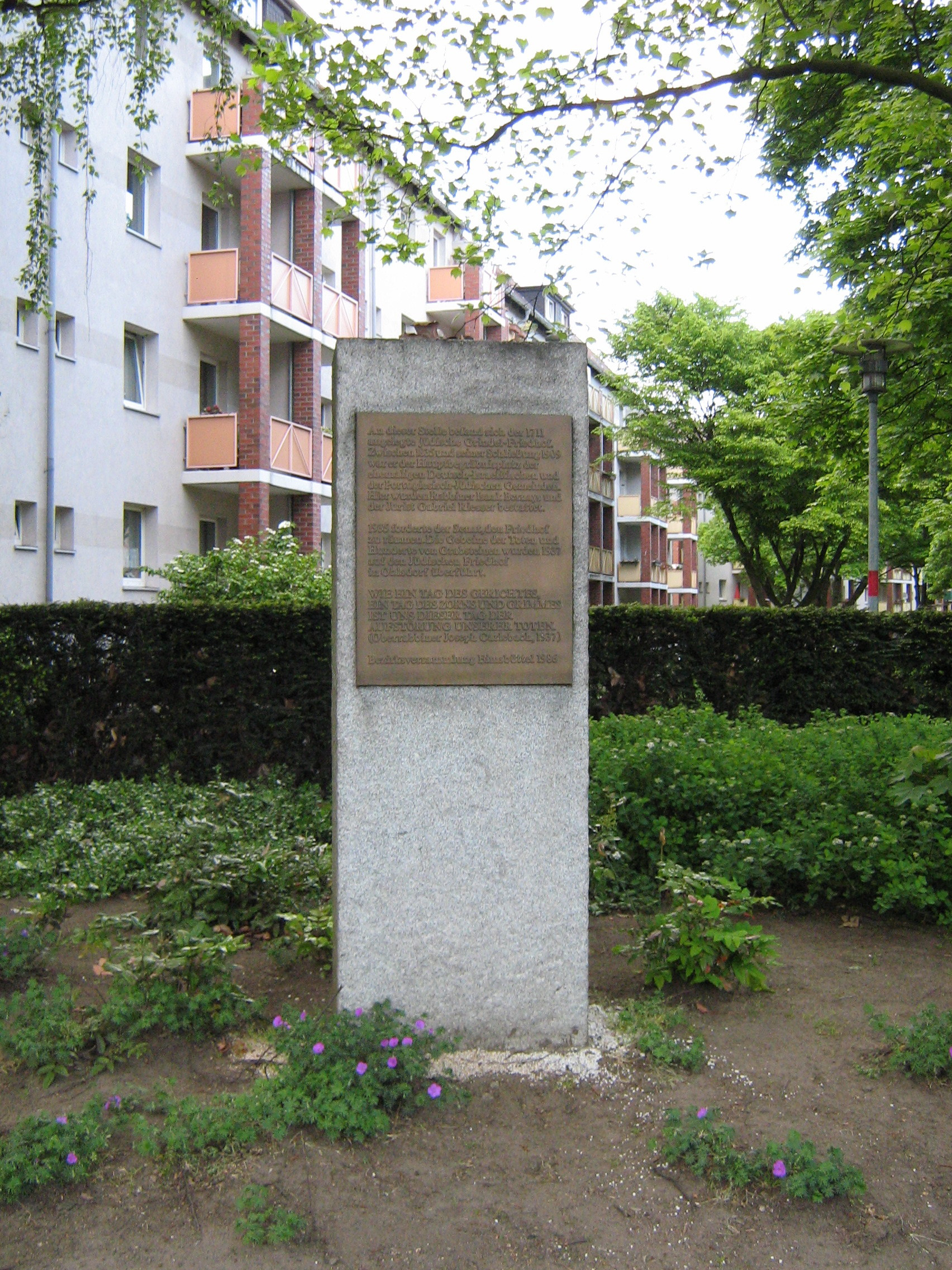 Plaque for the former Jewish cemetery am Grindel, Hamburg-Rotherbaum, compulsory dissolved in 1937 with the graves translated to the Jewish cemetery in Hamburg-Ohlsdorf.